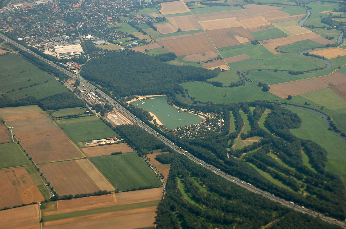 Aerial photographs